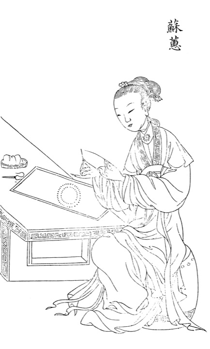 Portrait of Su Hui (4th c.), woodblock print. From Baimei tupu